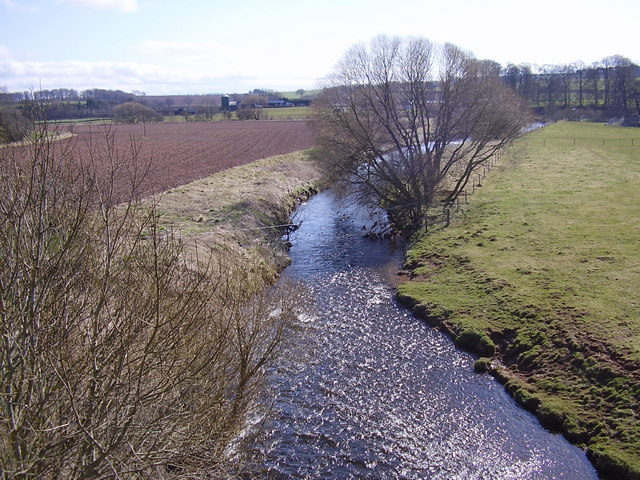 River Leader Flowing south after passing Thirlestane Castle near Lauder.